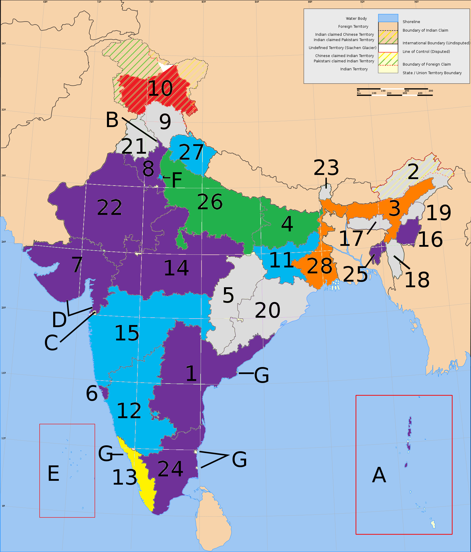 Islam population percentage in India